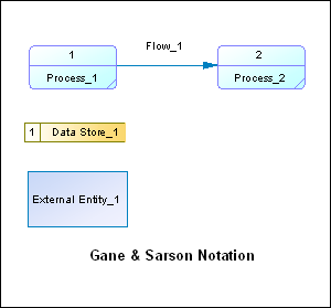 Picture shows Gane and Sarson notation of Data Flow Diagram (DFD).